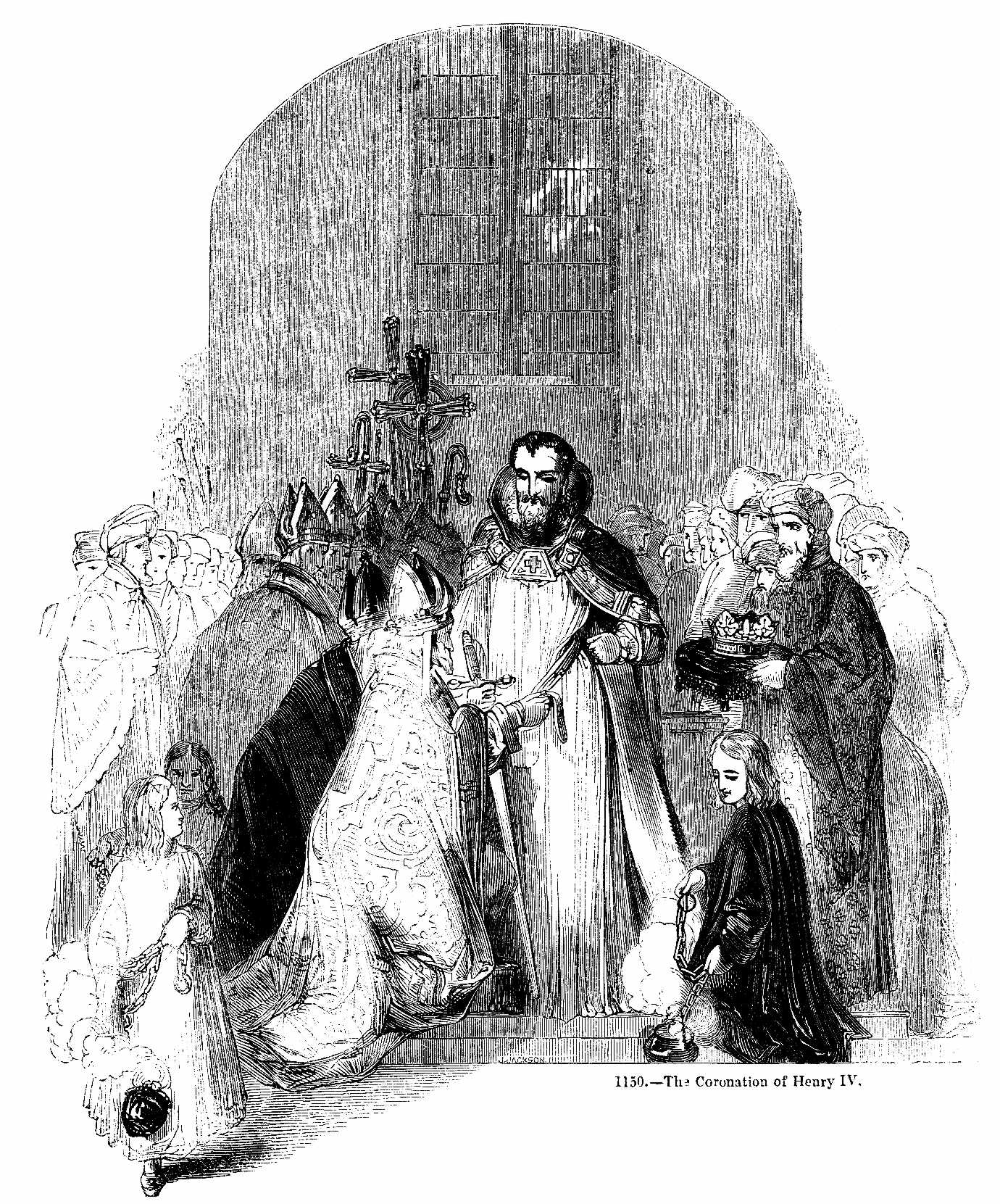 The Coronation of Henry IV